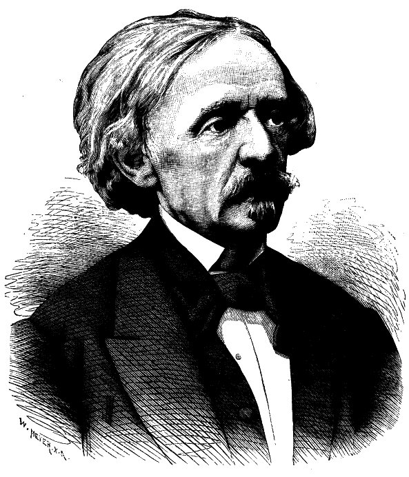 Per Reinhold Tersmeden (1805-1880), Swedish journalist and politician; member of parliament.